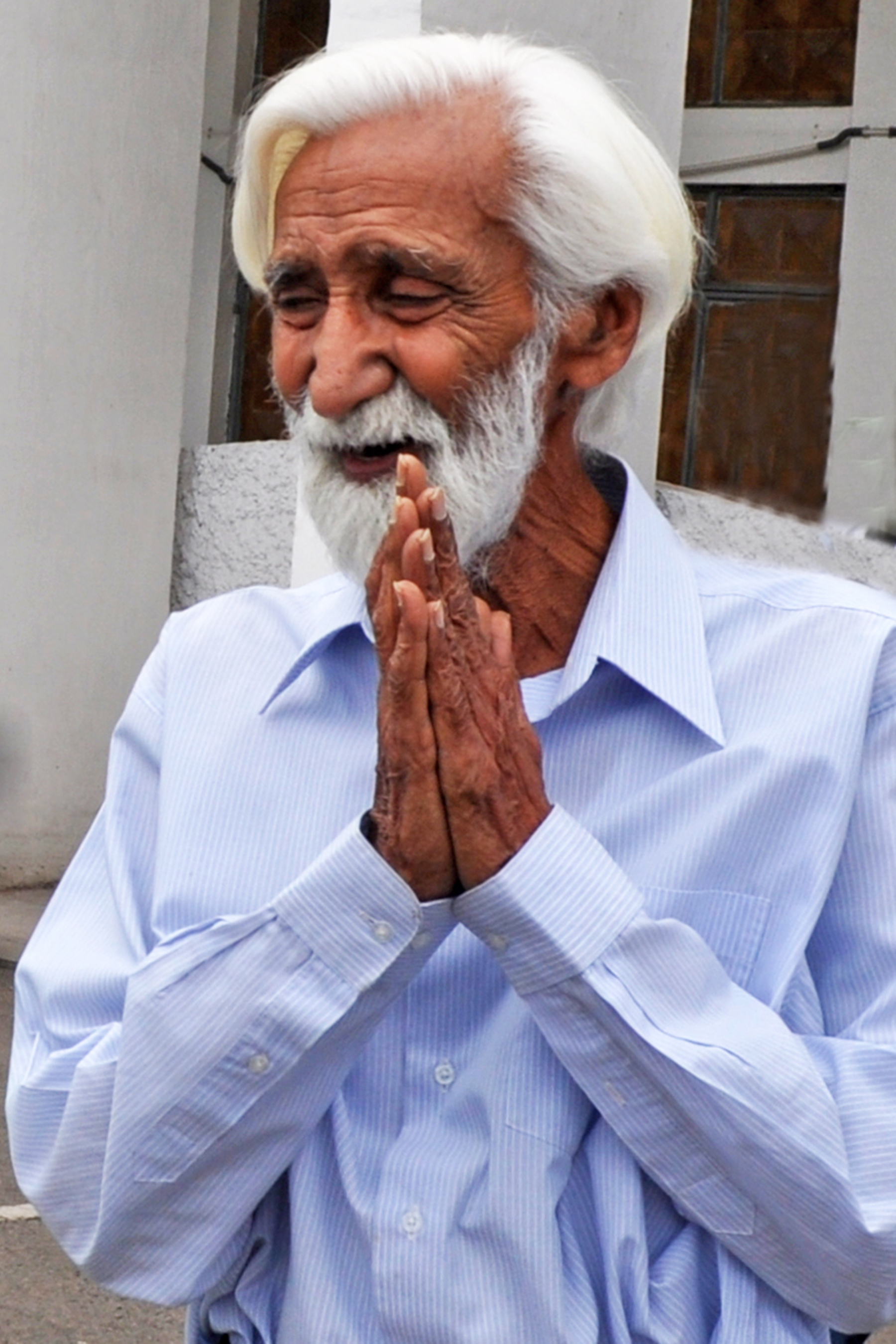 Hardiljeet Singh Sidhu 'Lalli'